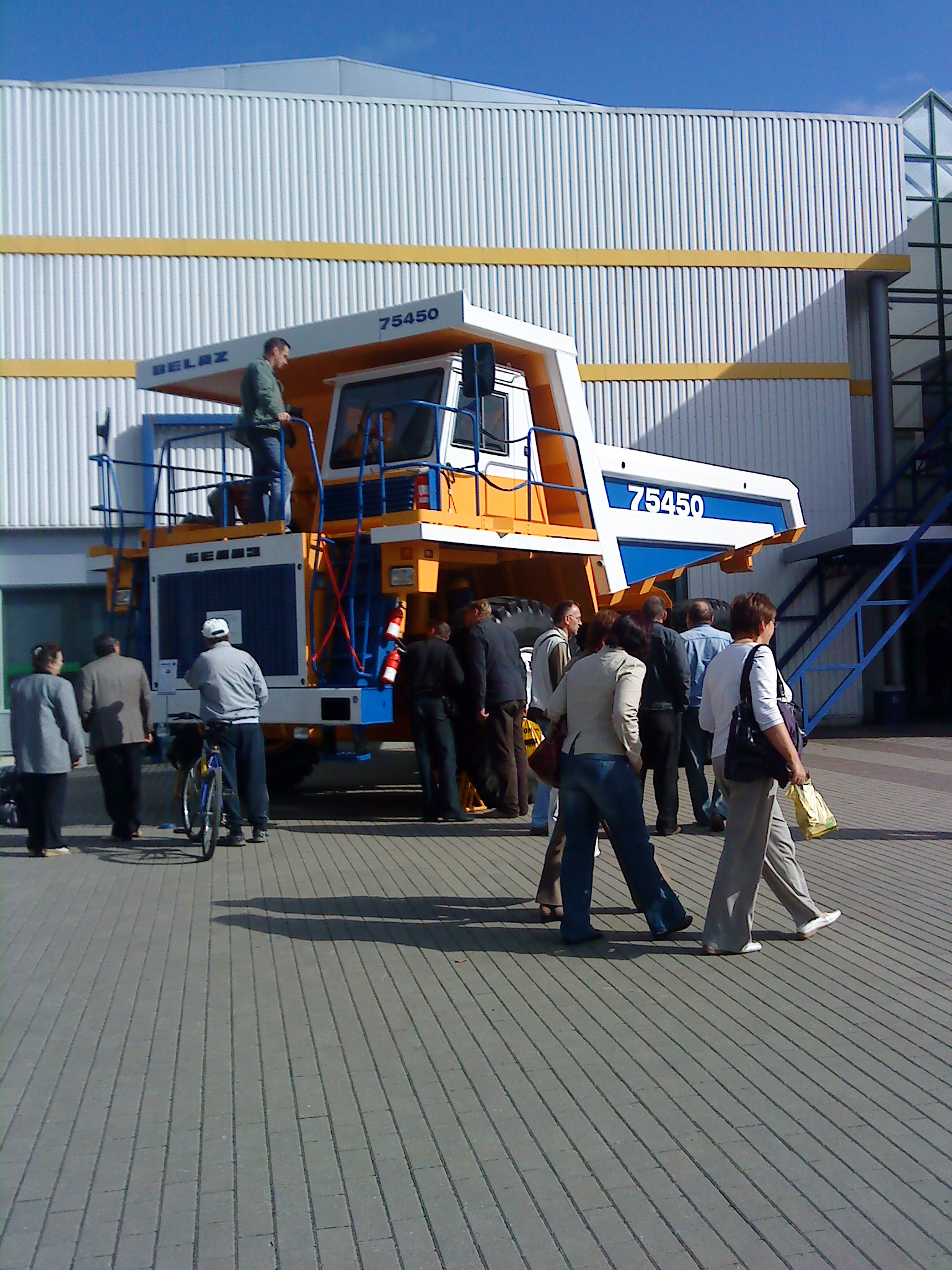 Photo of Belaz-75450 vehicle by the entrance into 2009 Belarus Expo exhibition in Vilnius.